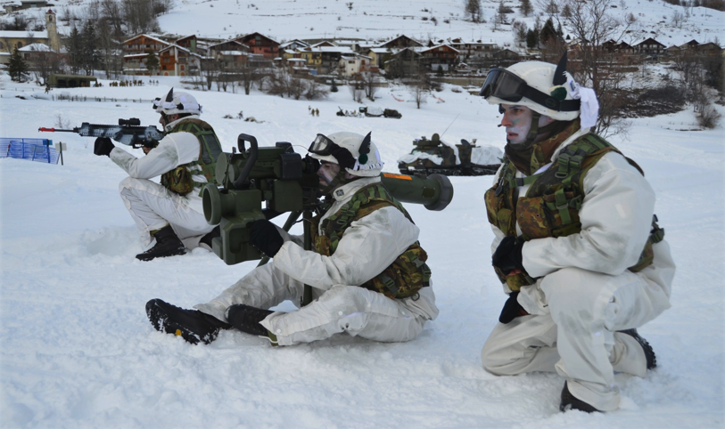 Italian Army Alpini of the 217th Anti-Tank Company, Saluzzo Battalion, 2nd Alpini Regiment during a training exercise